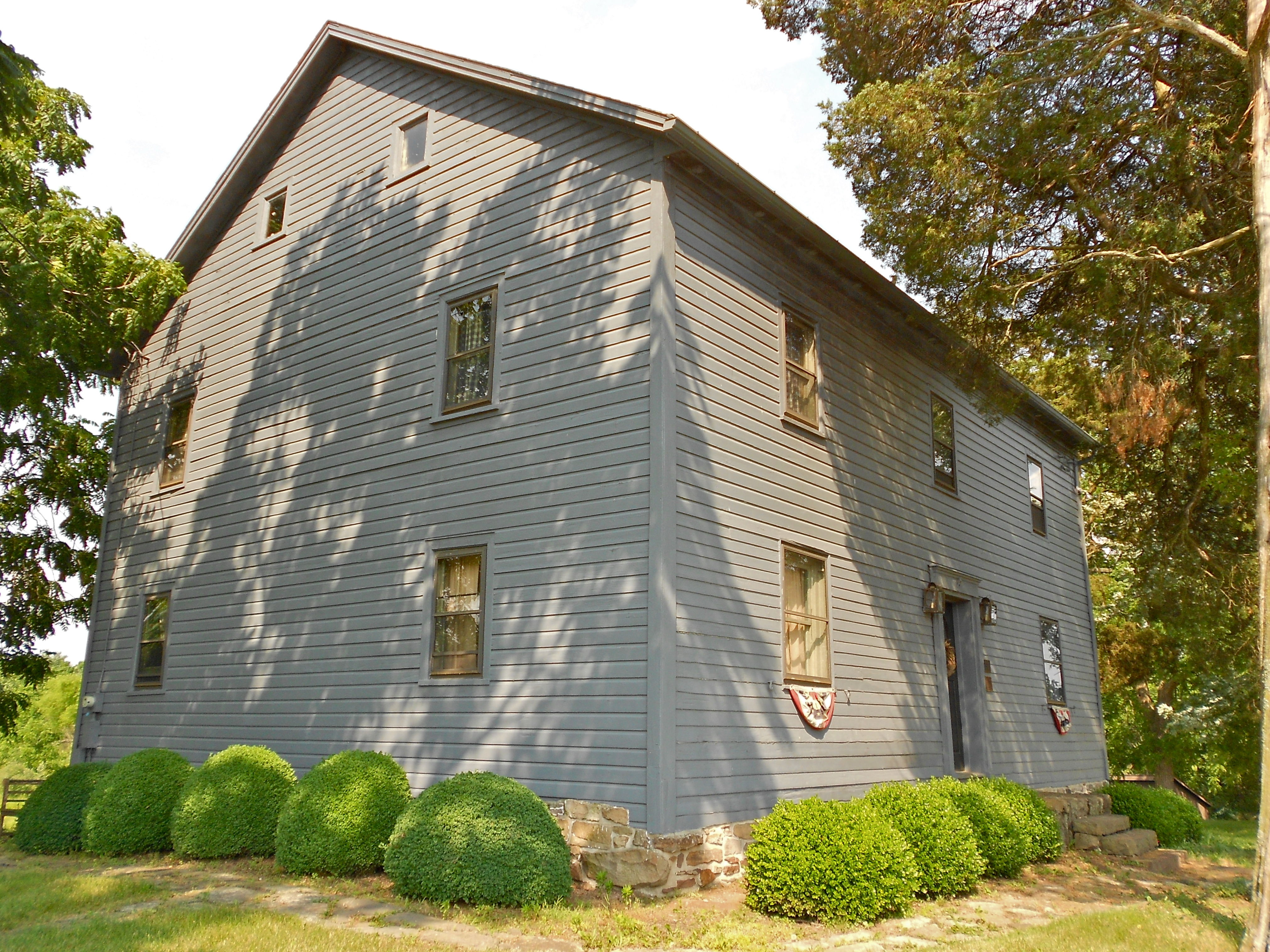 Wirts House at 798 Schrivers Corner Road (Pennsylvania Route 394), near Gettyburg (and Huntertown), Straban Township, Adams County, Pennsylvania Area: 4 acres (1.6 ha) Built: c. 1765 Architectural style: Federal Added to NRHP: January 22, 1992